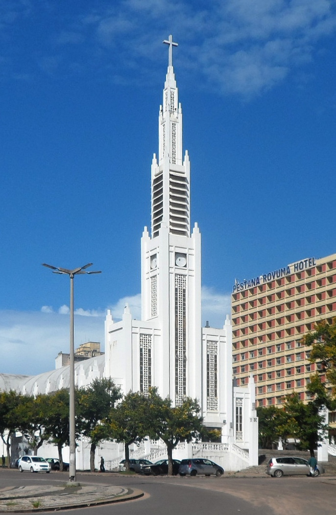 Cathedral of Maputo, Mozambique